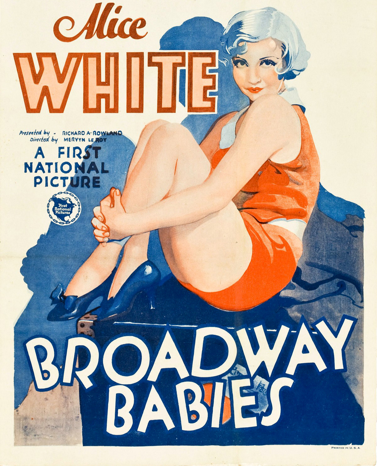 Poster for the American musical drama film Broadway Babies (1929). The item has no copyright markings on it as can be seen in the links above. At lower right is Printed in USA.